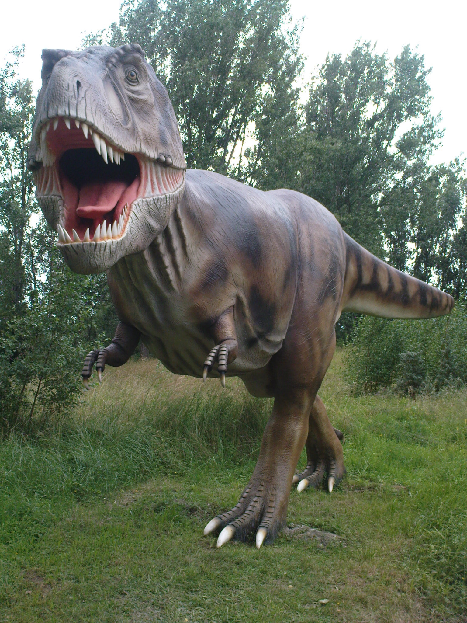 This image show Tyrannosaurus Rex as presented in Dinosaurierland Ruegen.